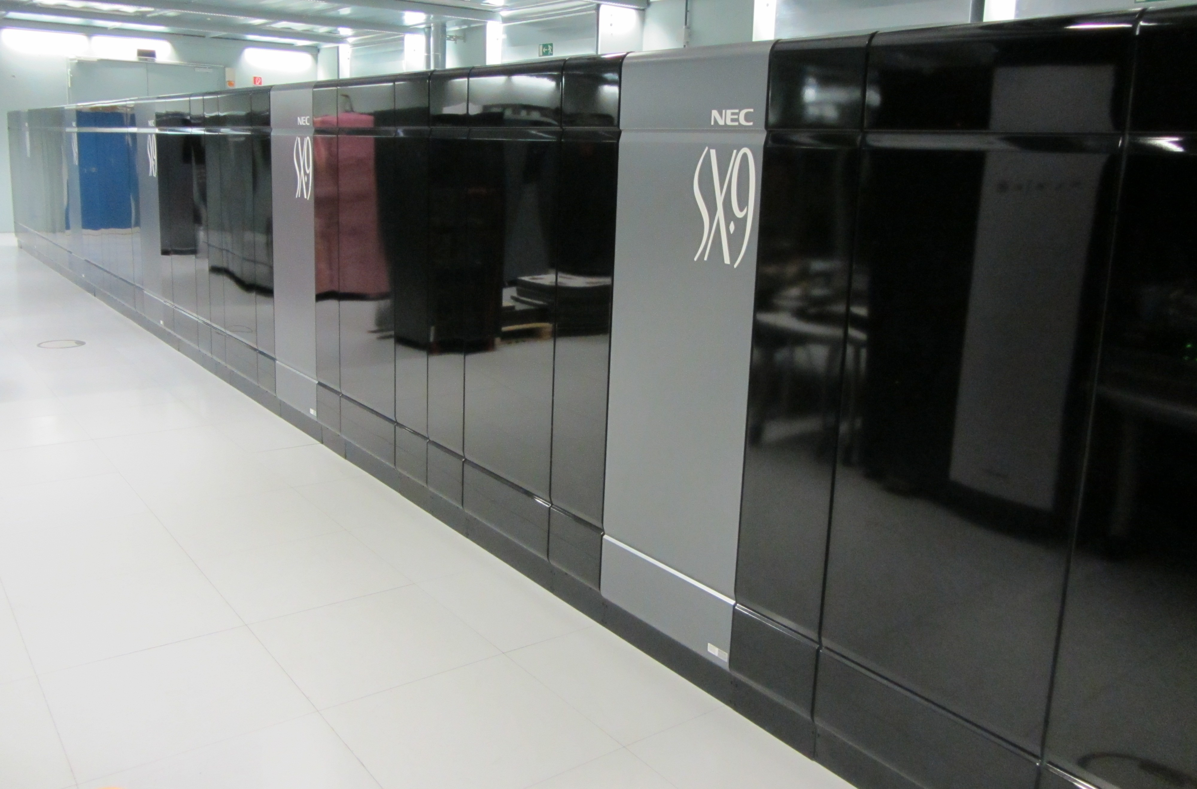 NEC SX-9 supercomputer in the High Performance Computing Center, Stuttgart. Photo taken with permission at the "Tag der Wissenschaften" (Science Day) of the University of Stuttgart.